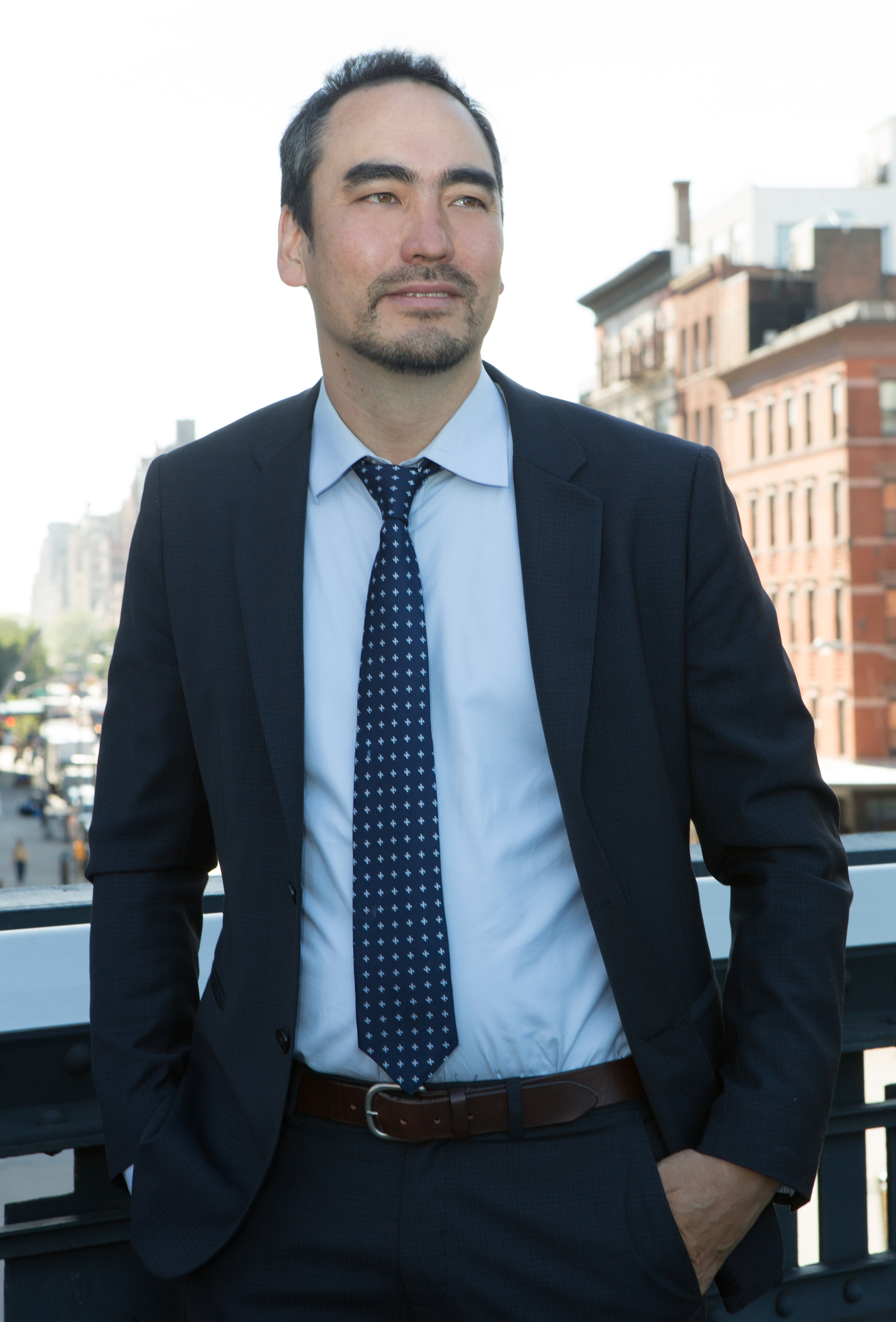 Photograph of Tim Wu, 2014 candidate for Lieutenant Governor of New York, taken at a campaign event.